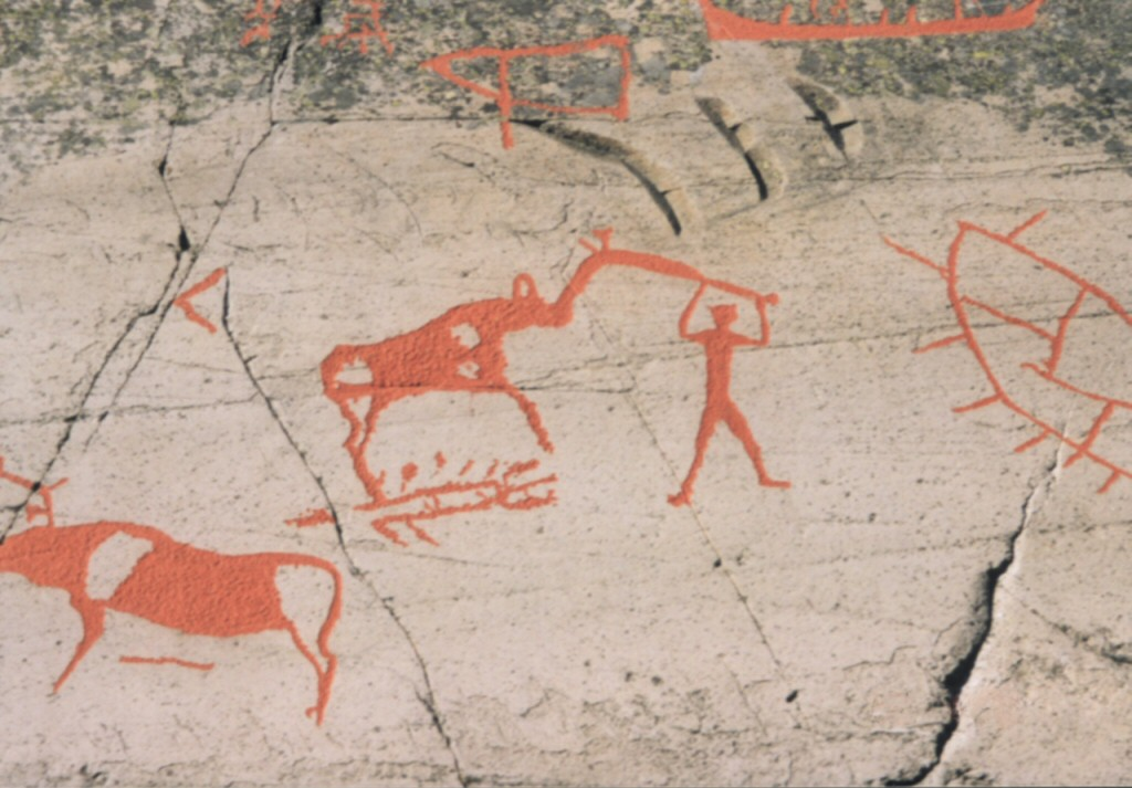 Detail from the Rock carvings at Alta, showing a man using some sort of tool on a moose. This scene has alternatively been interpreted as a hunter fighting with the moose or a shaman communicating in some way with the animal. Photo taken by Ferkelparade and hereby released under the GFDL.